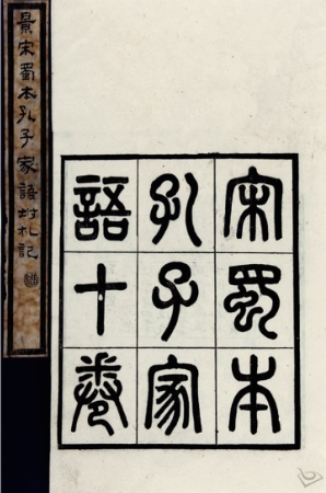 Cover of 1895 (24th year of the Guangxu reign) print of the Kongzi Jiayu